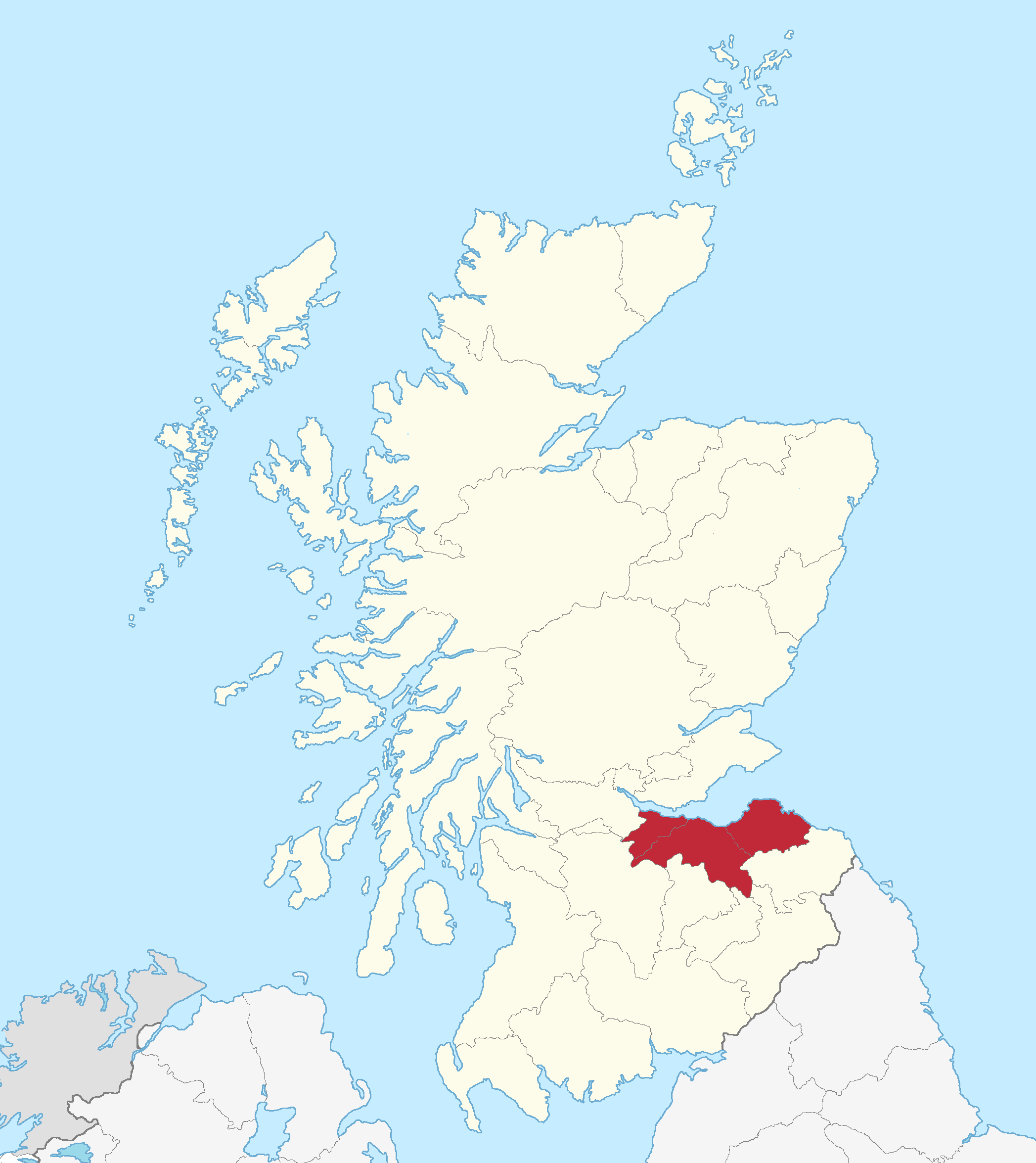 Shire map of Scotland, with the Lothians highlighted.